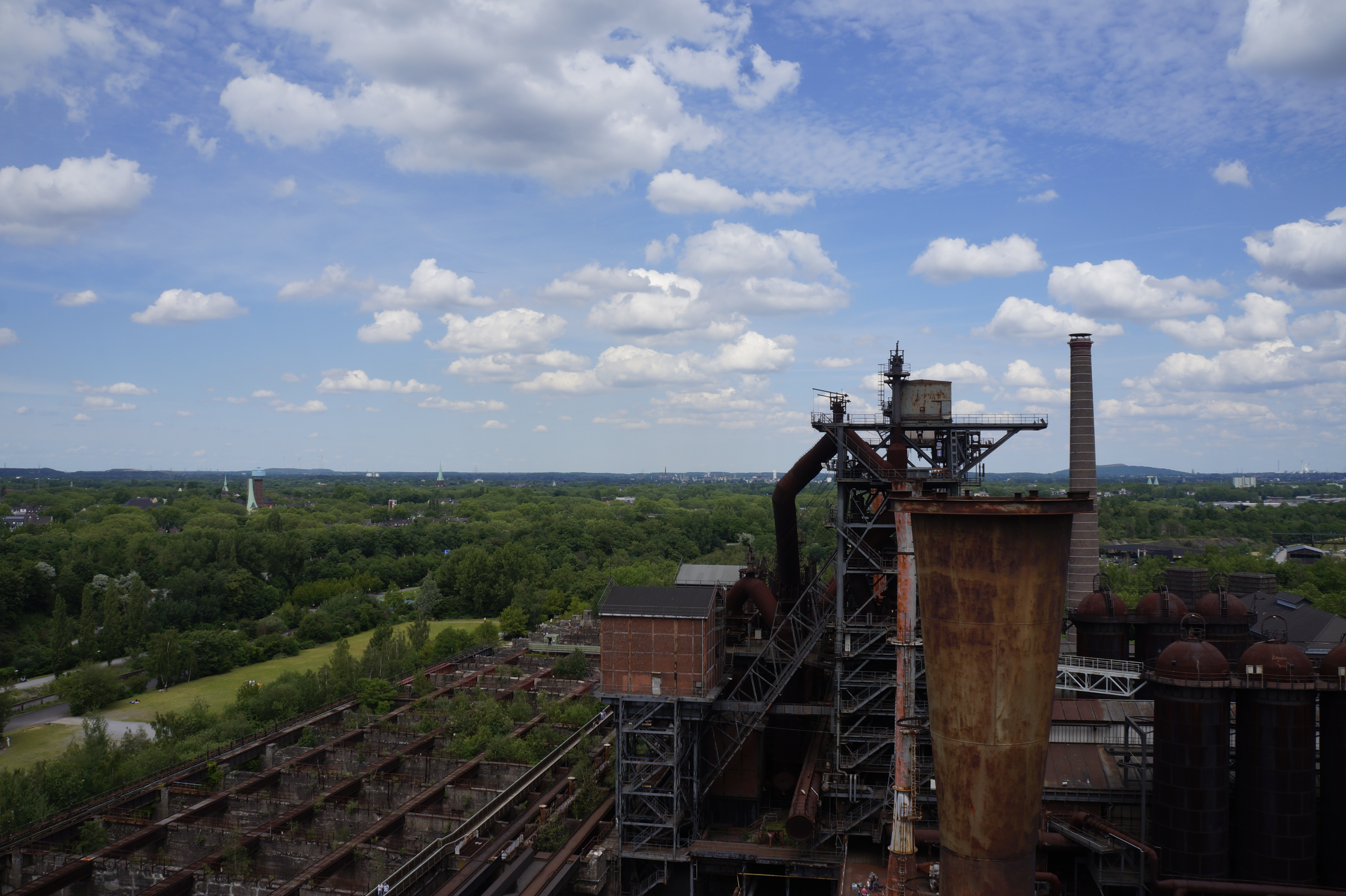 Industrial Heritage